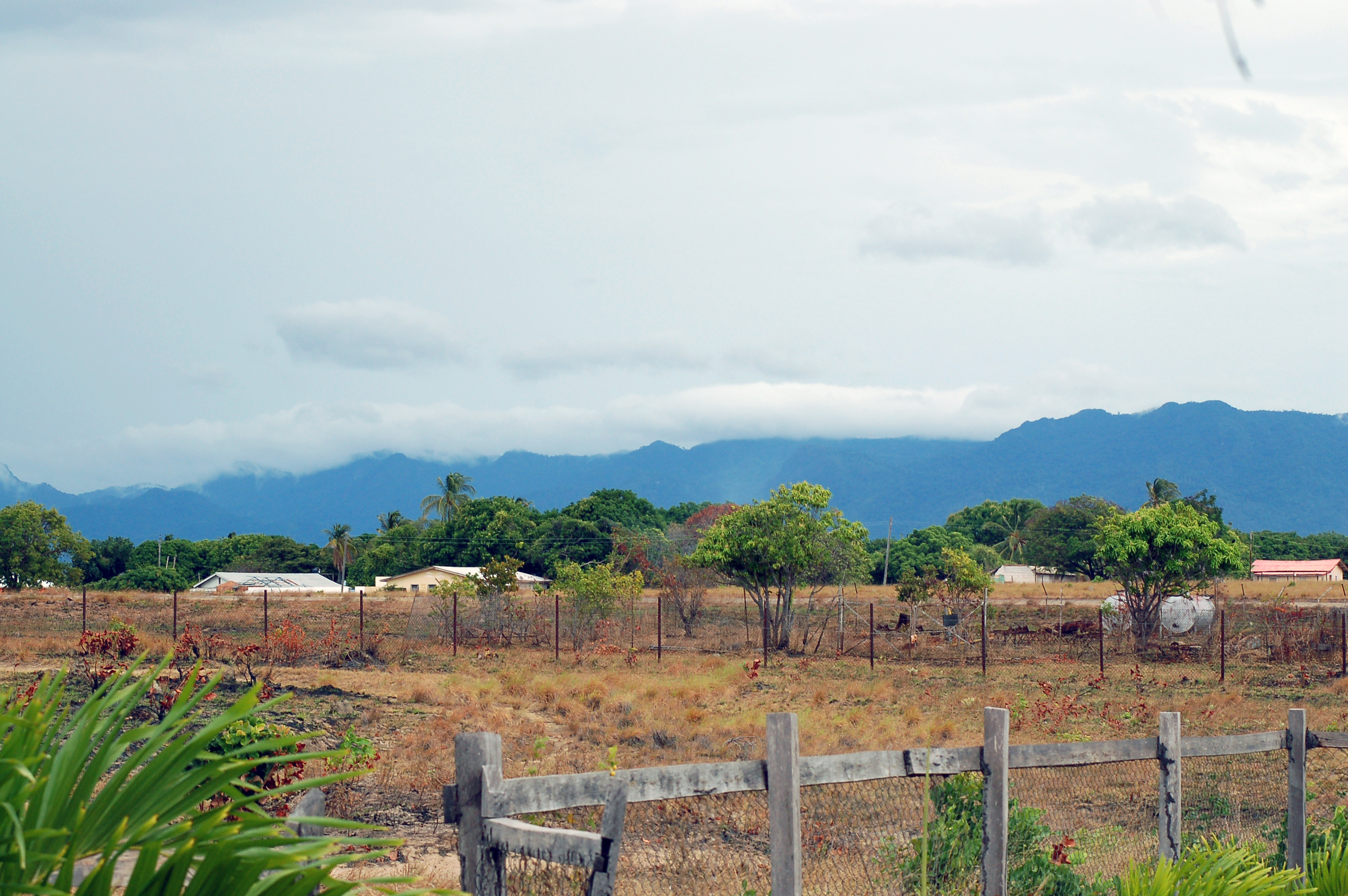 Lethem, Guyana looking toward the mountains, rain coming.